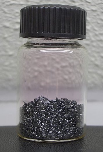 Iodine crystals in a vial